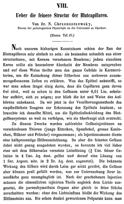 Nikanor Chrzonszczewsky Ueber die feinere Structur der Blutcapillaren